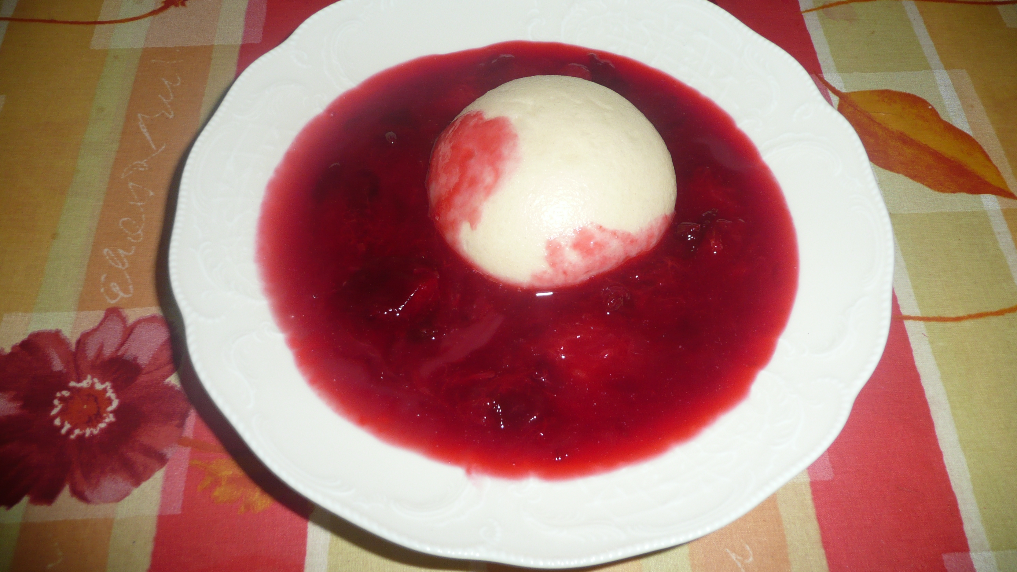 Plum Soup